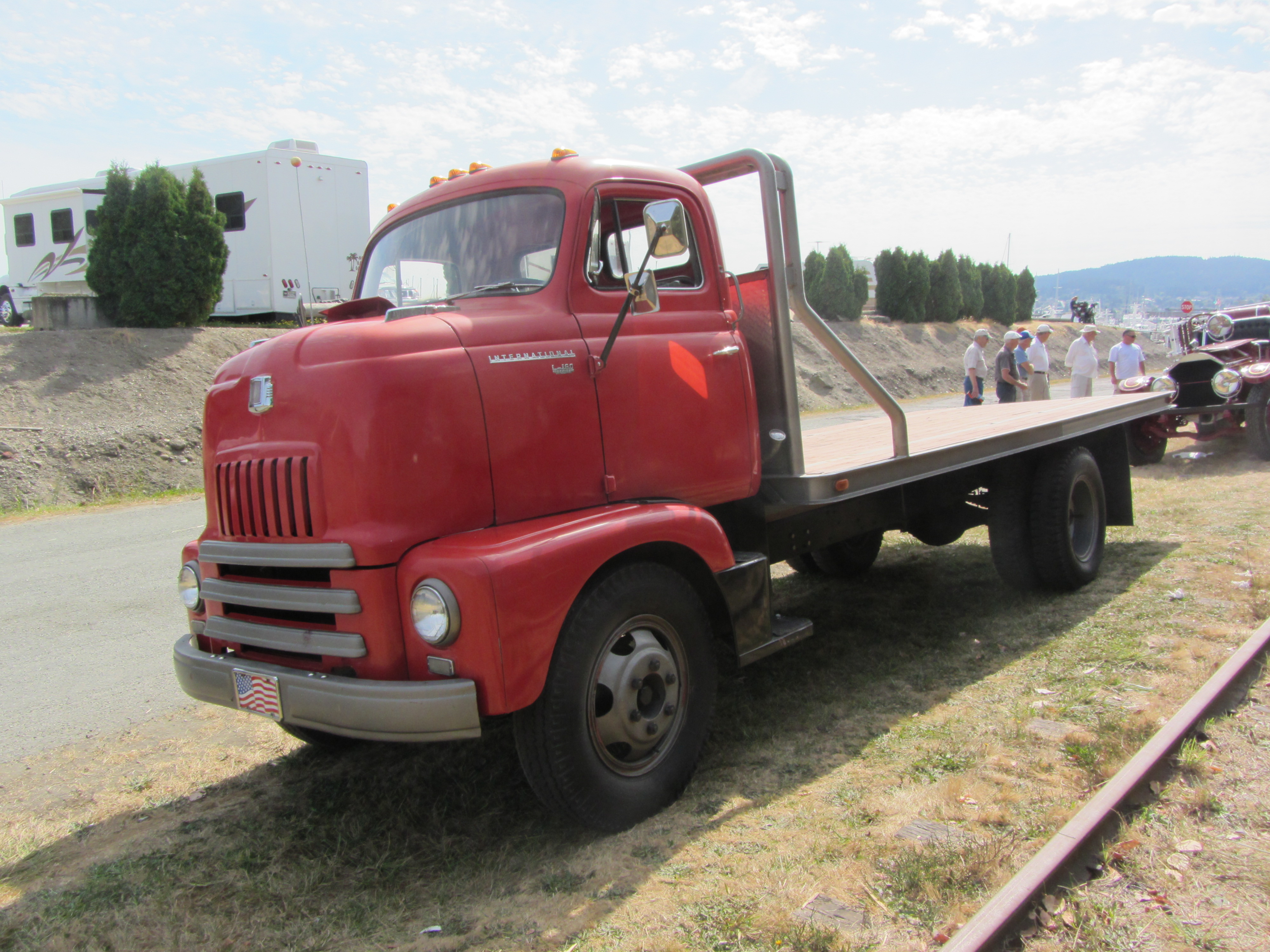 International Harvester LC-160 cabover truck seen at a steam power show in Anacortes WA. Possibly used to carry a tractor to the meet.